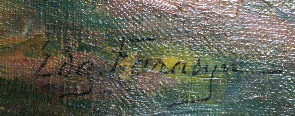 Signature of Edgar Farasyn. Photo taken from a privately owned painting.